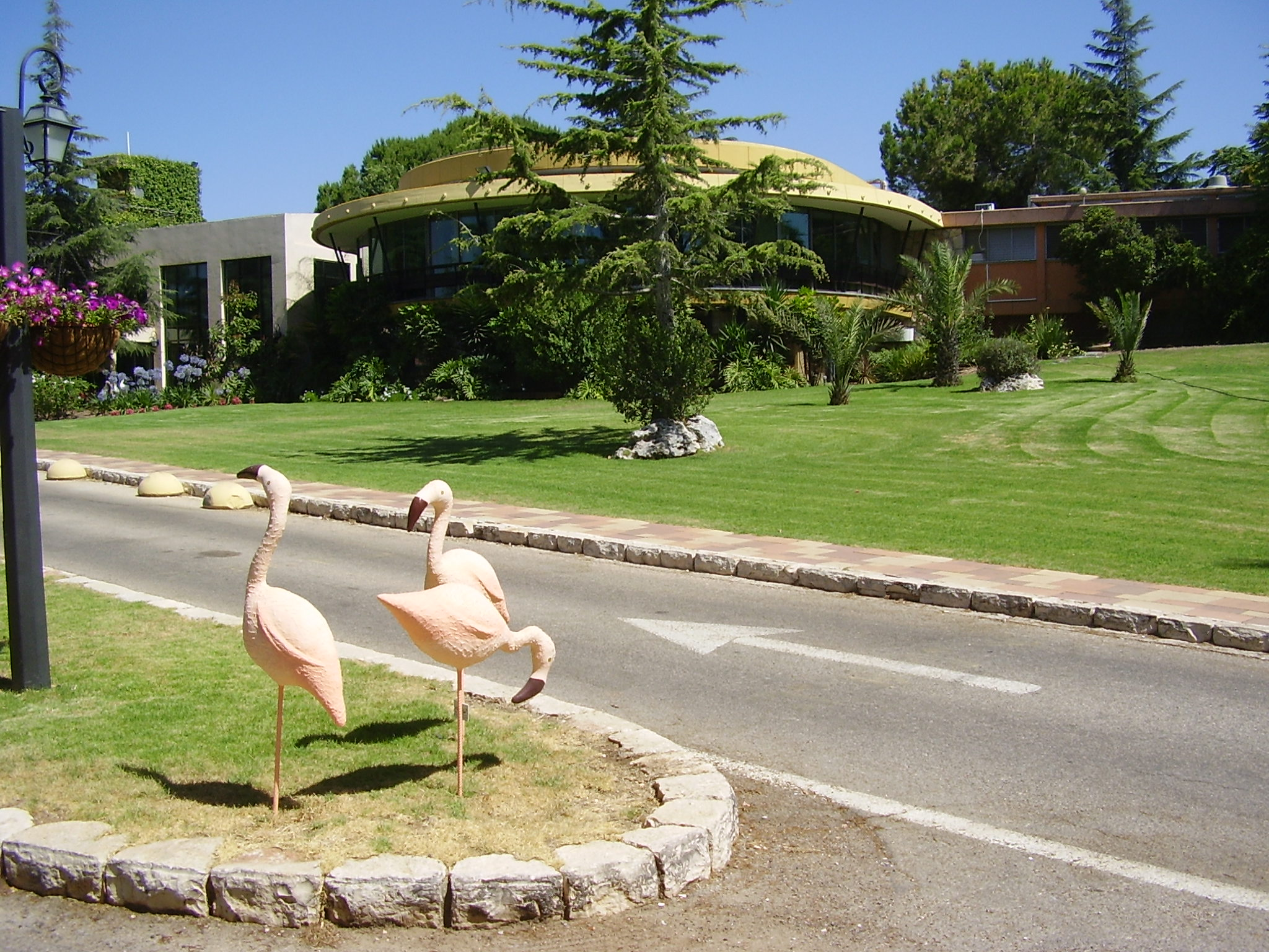 hacienda forestview hotel in ma\'alot